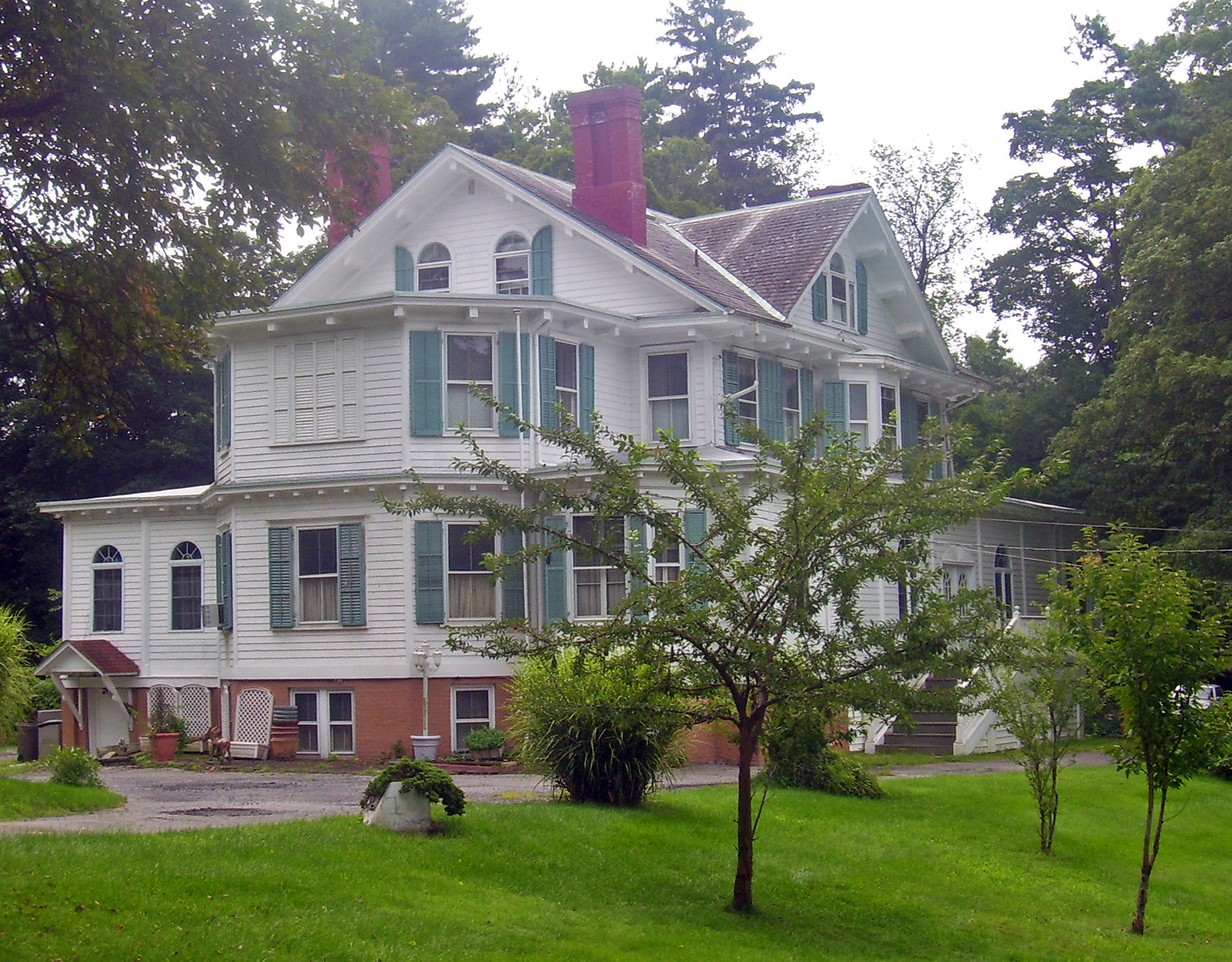 Isaac Roosevelt House, once main house of his "Rosedale" estate, Hyde Park, NY, USA